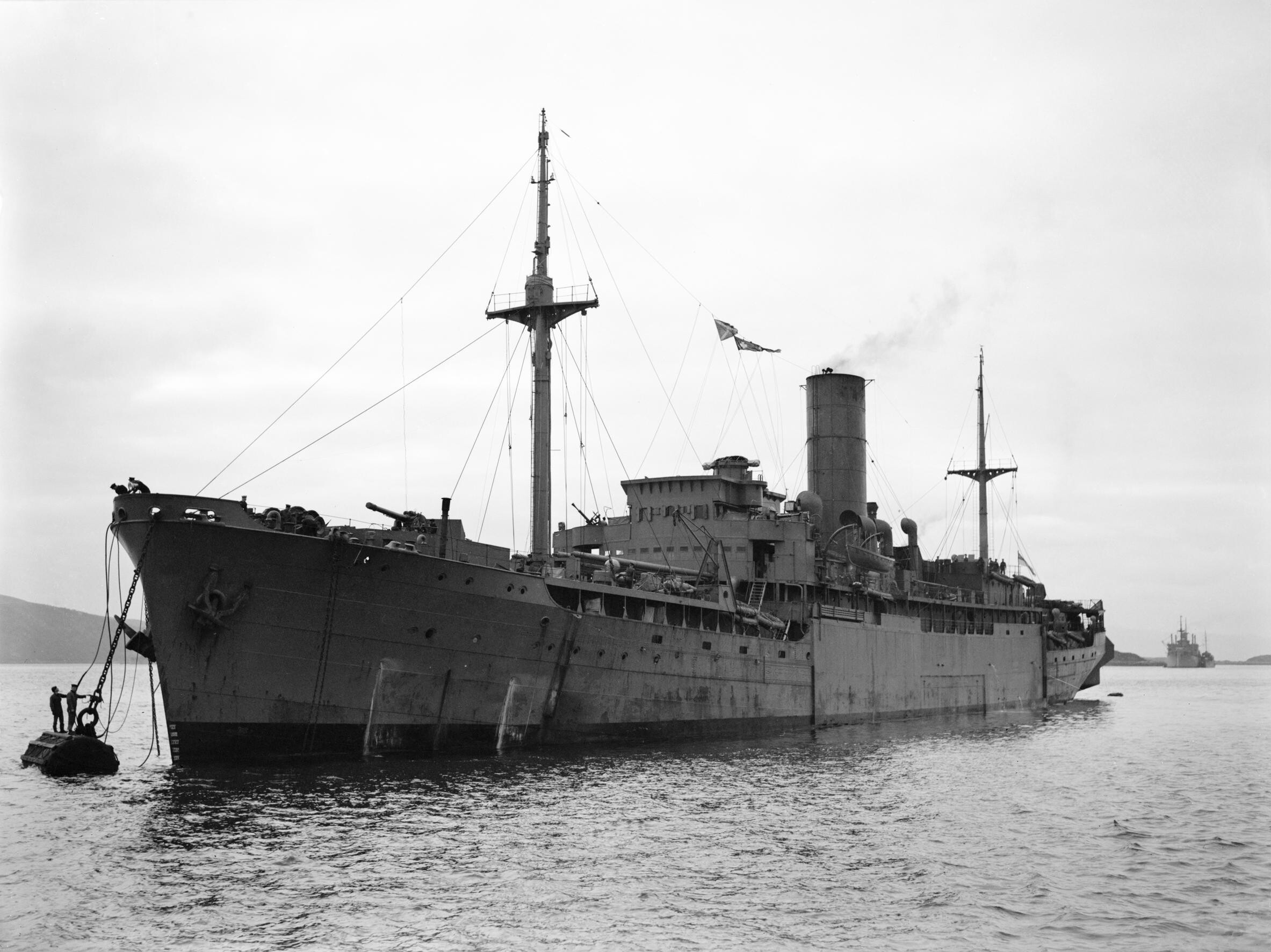 The Royal Navy during the Second World War The auxiliary minelayer HMS AGAMEMNON, a former Blue Funnel Liner, moored at a minelaying base on the Kyle of Lochalsh.